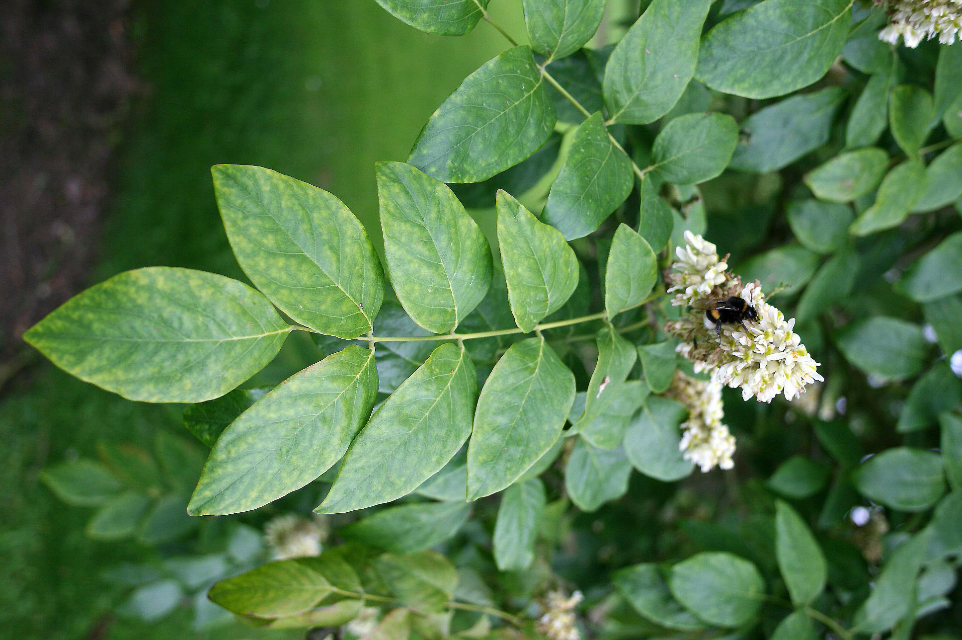 Amur Maackia - (Maackia amurensis) leaves Precise location : National Botanic Garden of Belgium - Meise (Belgium). Walon: Fouyes dol Maackie di l’Amour - (Maackia amurensis) Place rècta: Jardin botanike national di Bèljike - Meise (Bèljike).